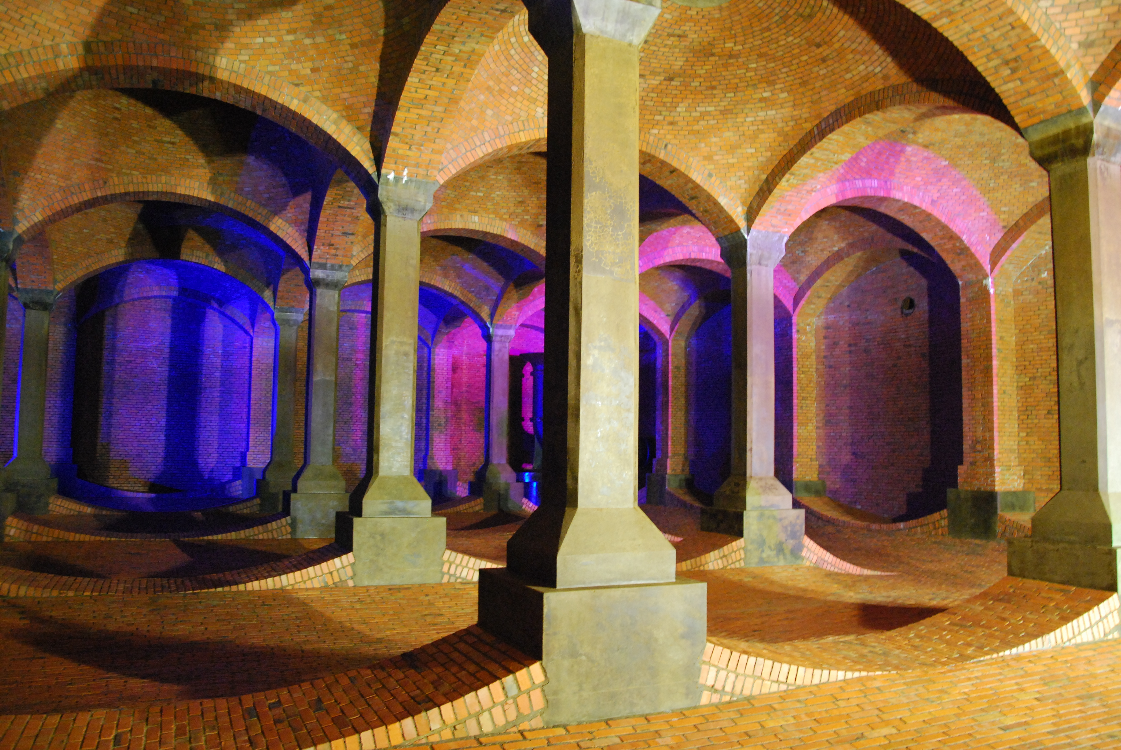 Underground water tank in Stoki, Łódź